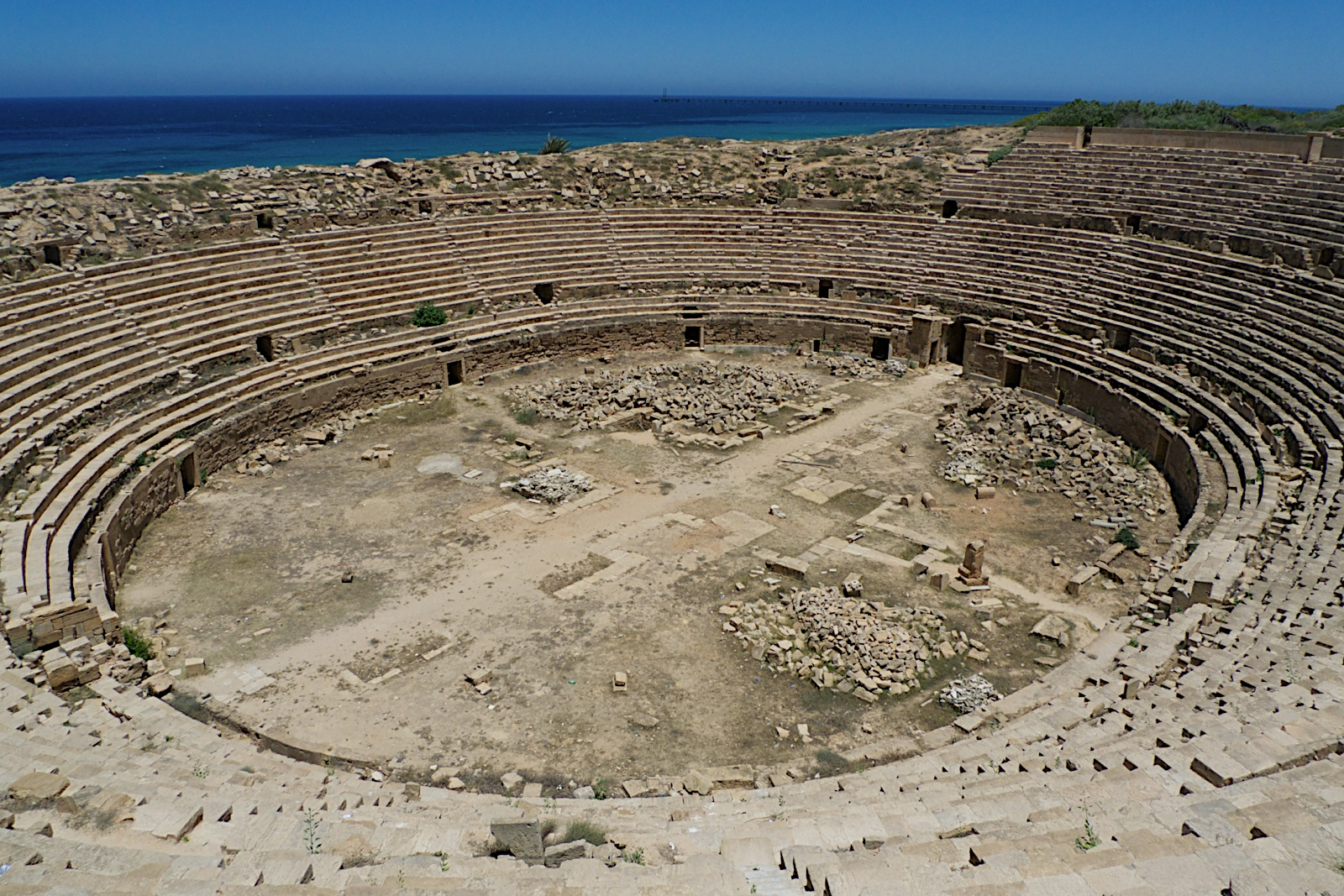 Leptis Magna amphitheatre